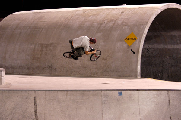 A cyclist gets some good air off of one of the many bowls at the Louisville Extreme Park in Louisville, Kentucky.